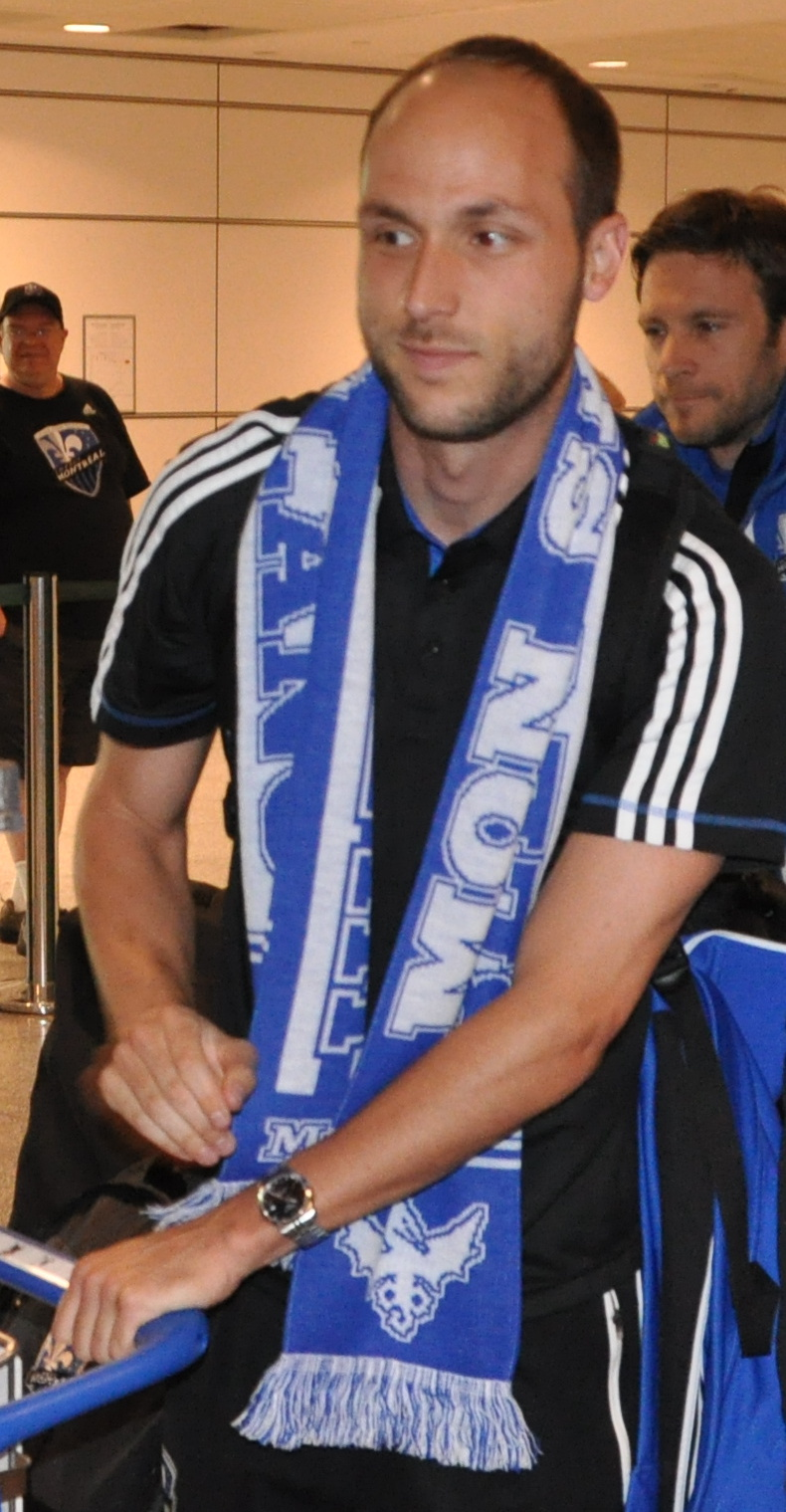 Soccer player Justin Mapp of the Montreal Impact at Montréal–Pierre Elliott Trudeau International Airport, 2 June 2013.